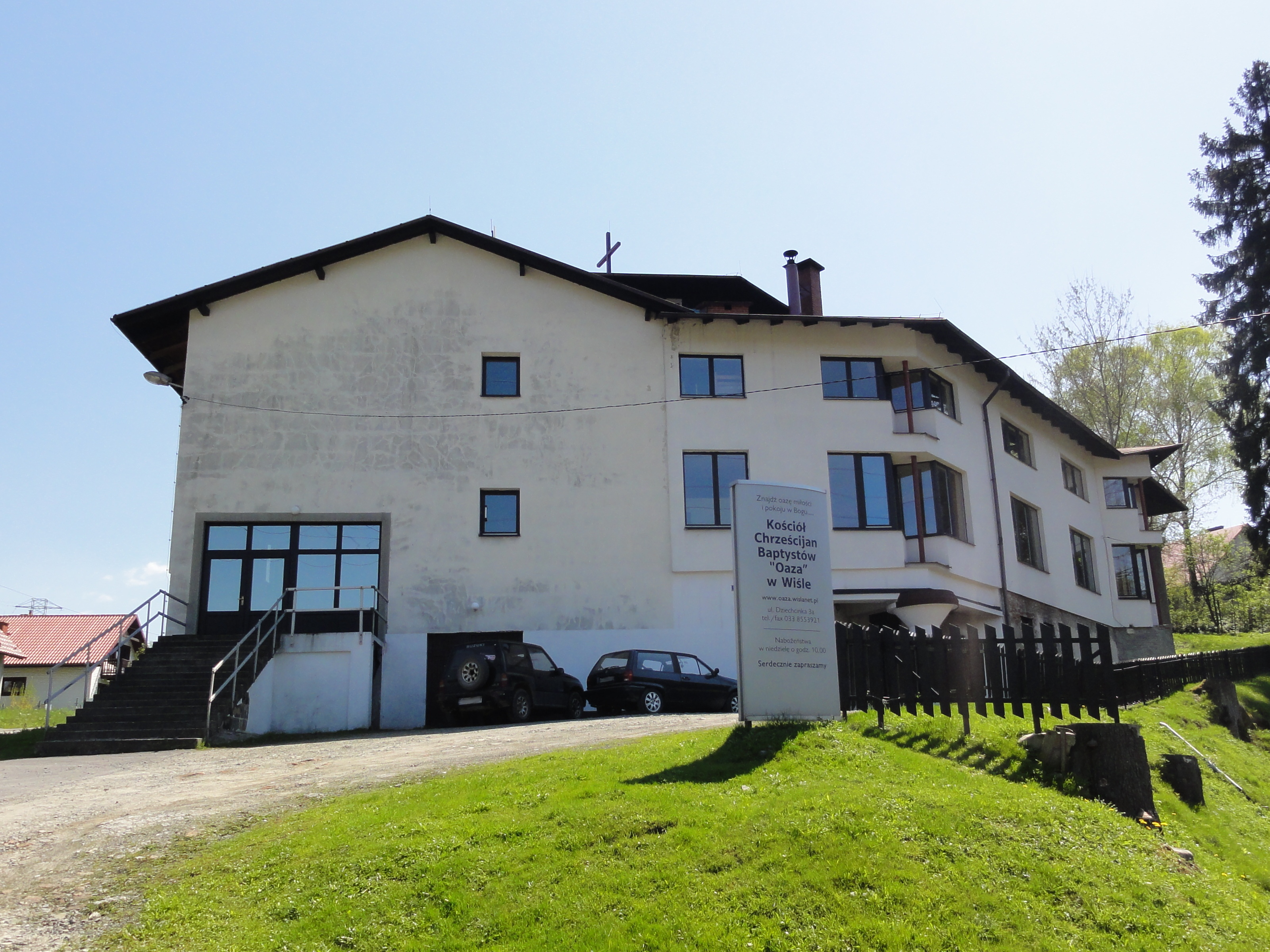 Baptis church in Wisła-Dziechcinka